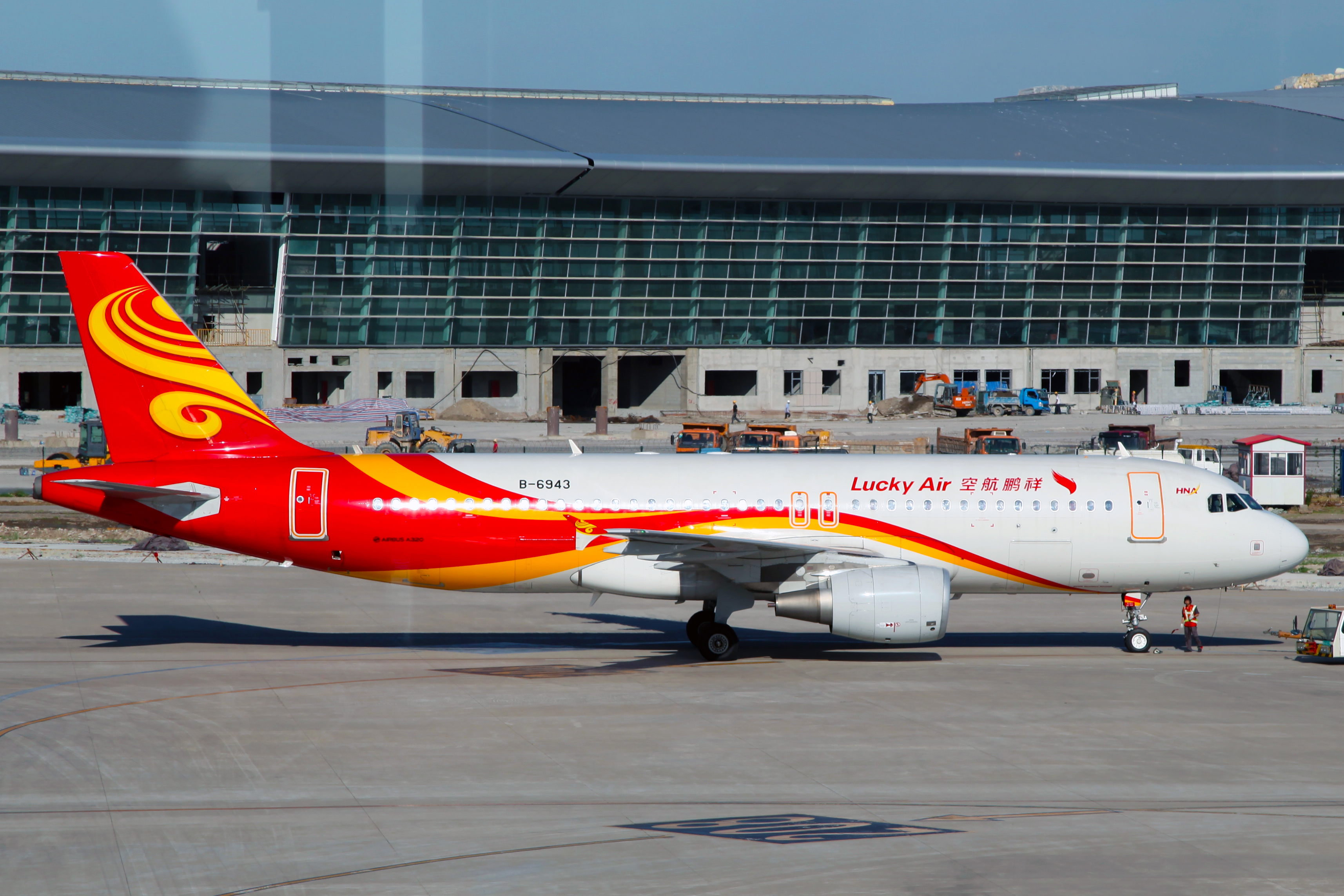 B-6943 | Lucky Air | Airbus A320-214 | Tianjin Binhai International Airport [TSN]